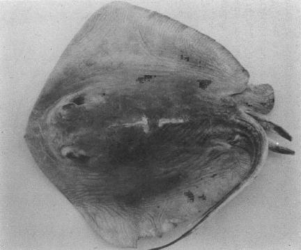 Holotype of the Izu stingray (Dasyatis izuensis).